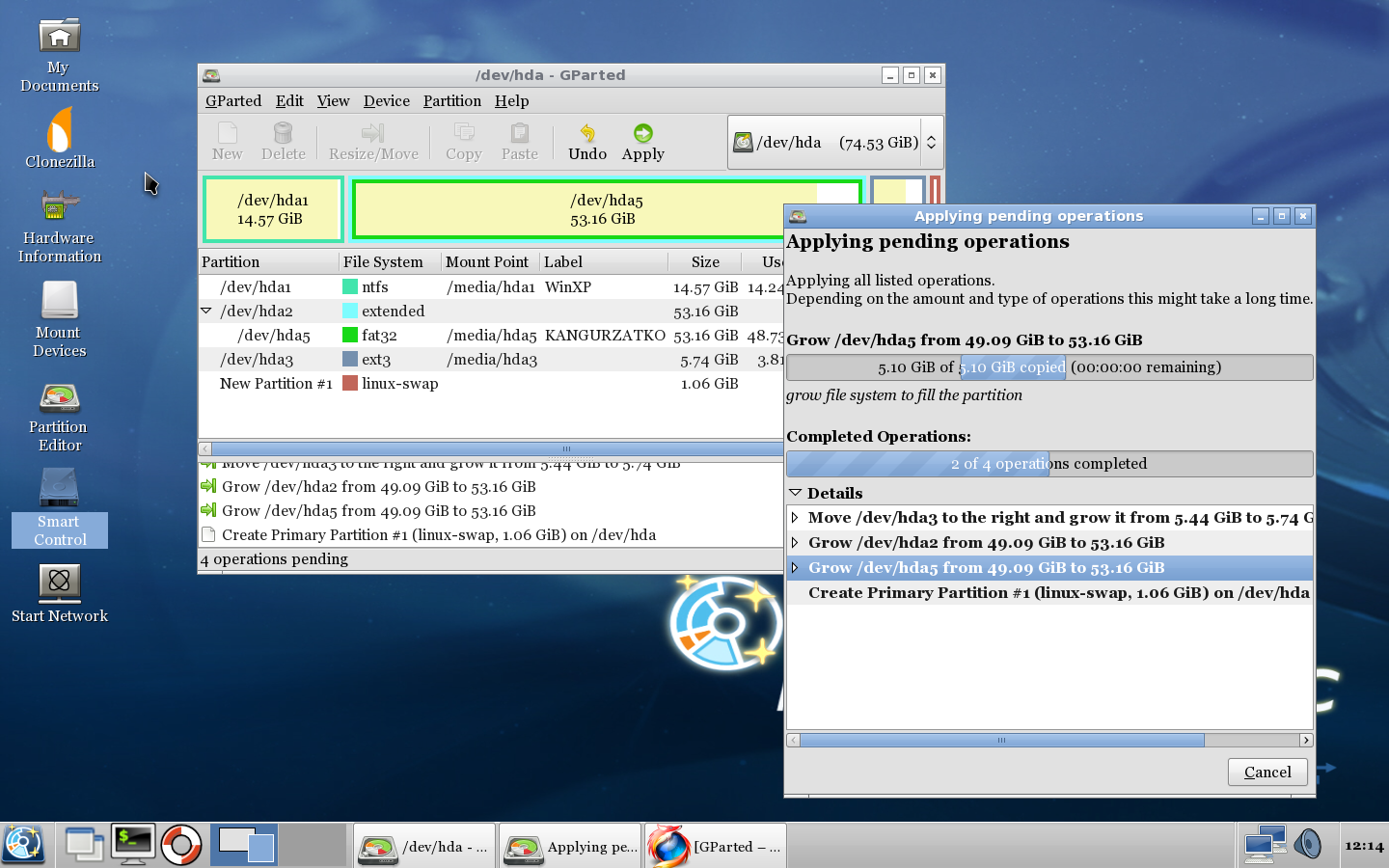 Parted Magic - A Free Partitioning Tool